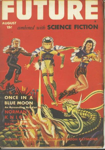 August 1942 cover of the Future combined with Science Fiction magazine, volume 2, issue 6.